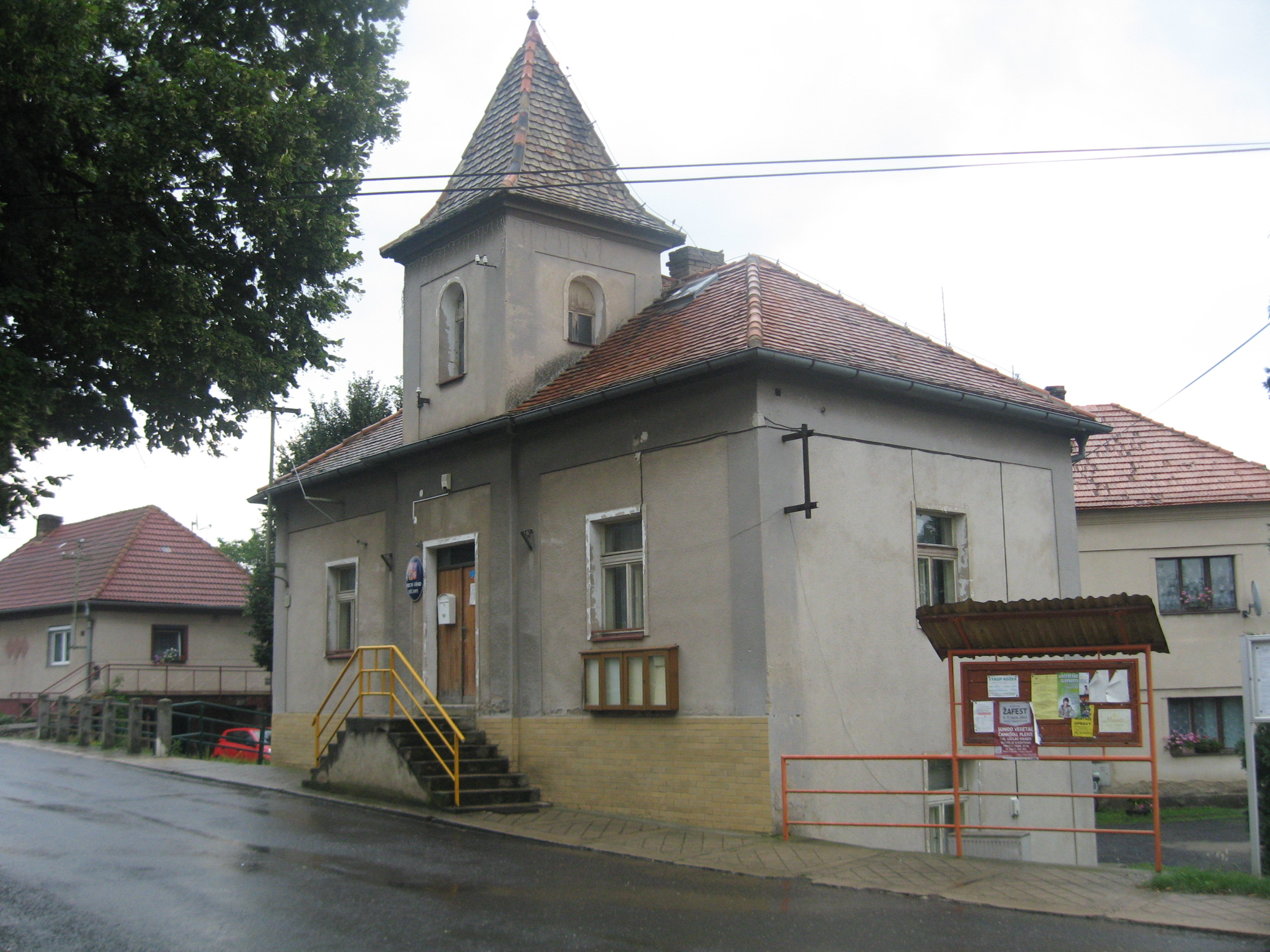 House of municipality in Děčany